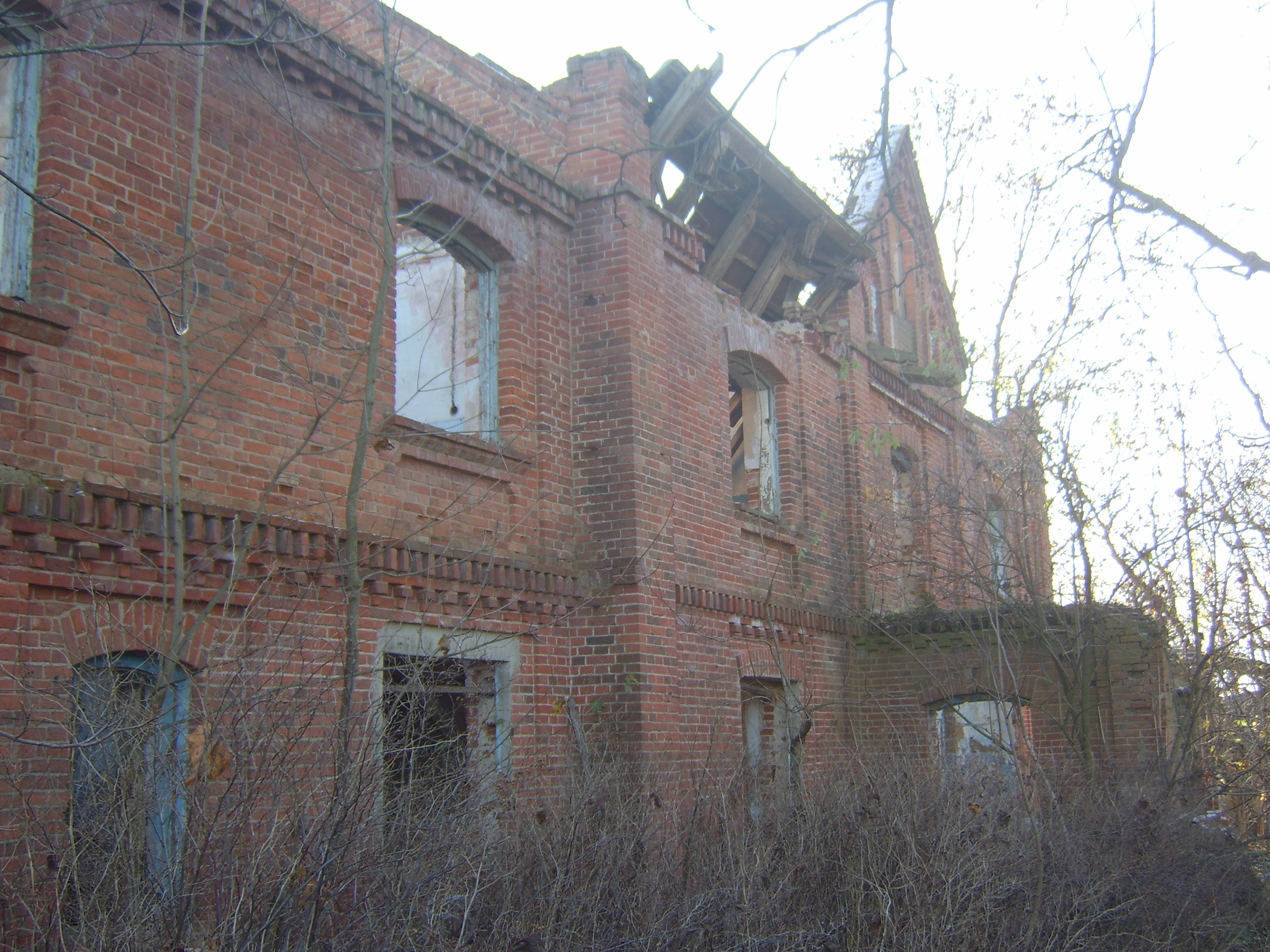 Łaškievič Estate, Stajki village, Baranavičy district